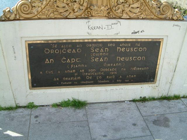 Photo taken by me in 2005.